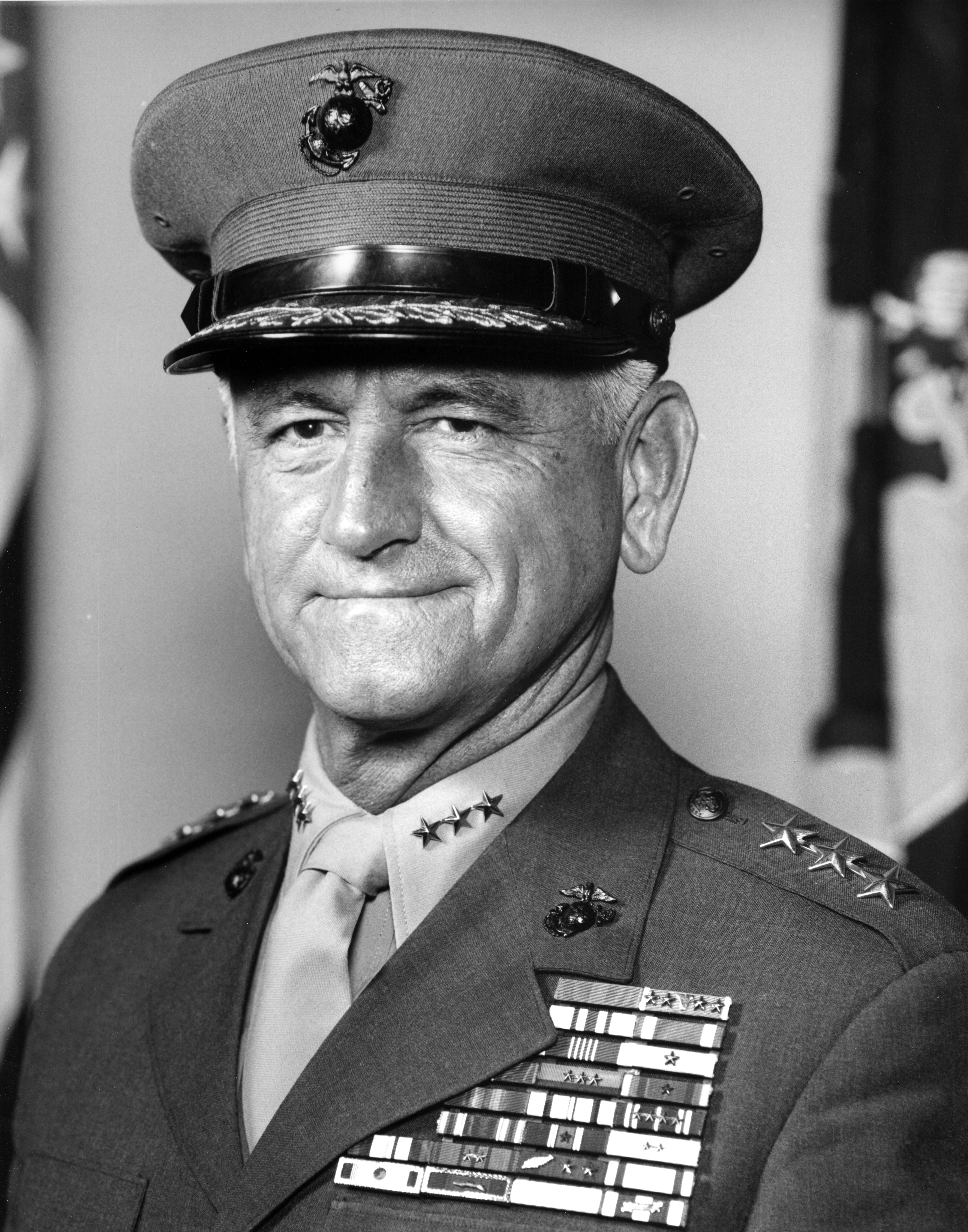 Lawrence Fontaine Snowden (April 14, 1921 – February 18, 2017) was a lieutenant general in the United States Marine Corps. In 1995, he founded the annual Reunion of Honor, a program honoring those who lost their lives on both sides of the Battle of Iwo Jima.